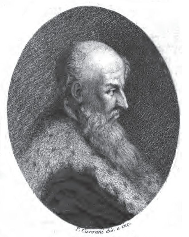 Portrait of Francesco Maria Molza